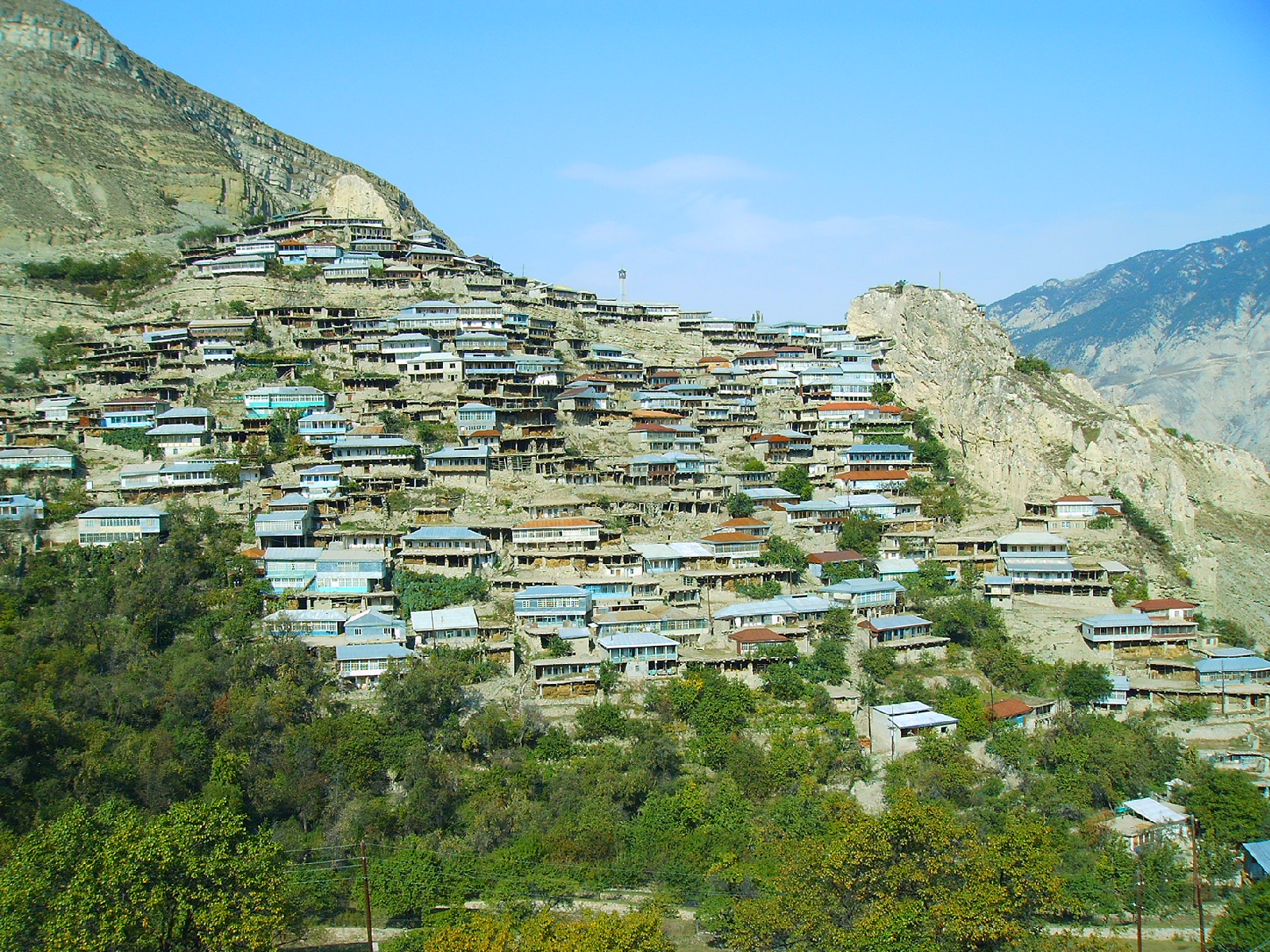 Anchik or Anchih, Dagestan